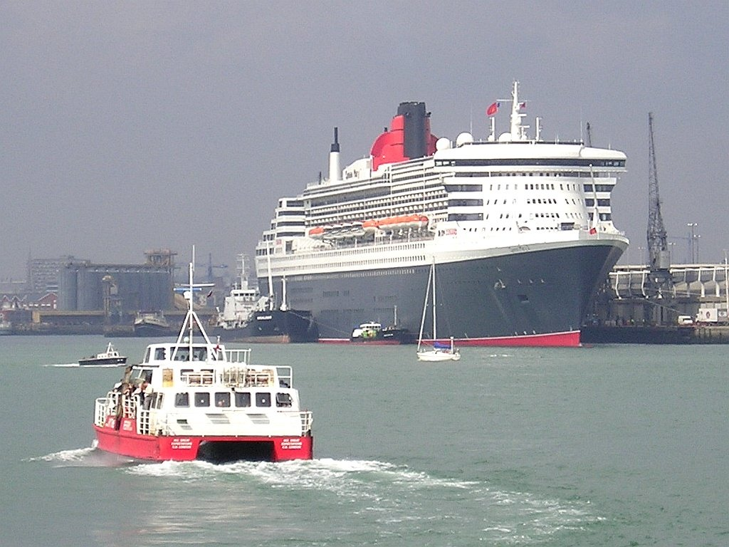 RMS Queen Mary 2 and Hythe Ferry Great Expectations from Hythe Pier. Built by the White Horse Ferries on their own yard in Gravesend. Photo by Paul Dashwood April 2004